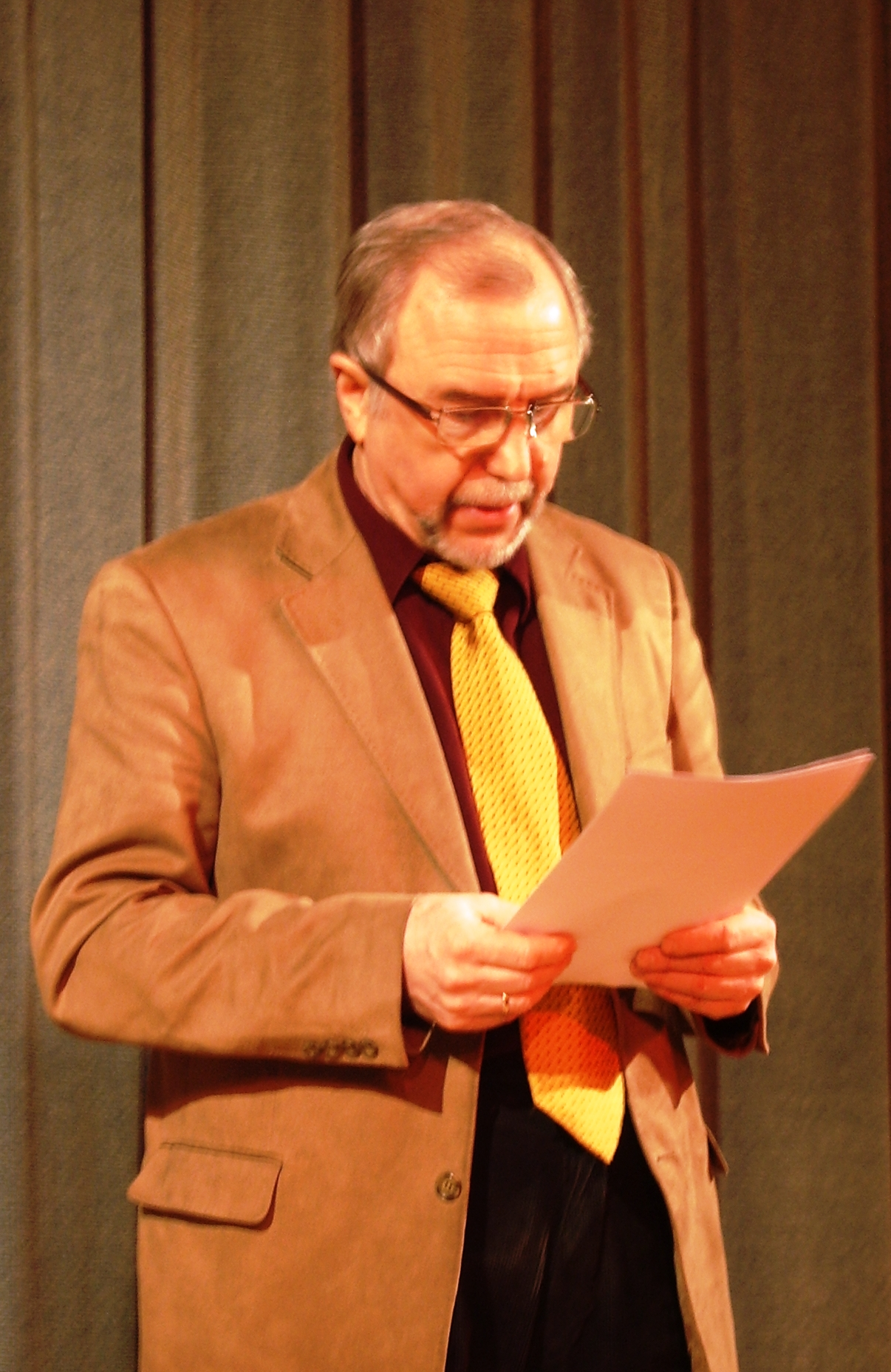 Rein Veidemann (born 1946) is Estonian writer and journalist.